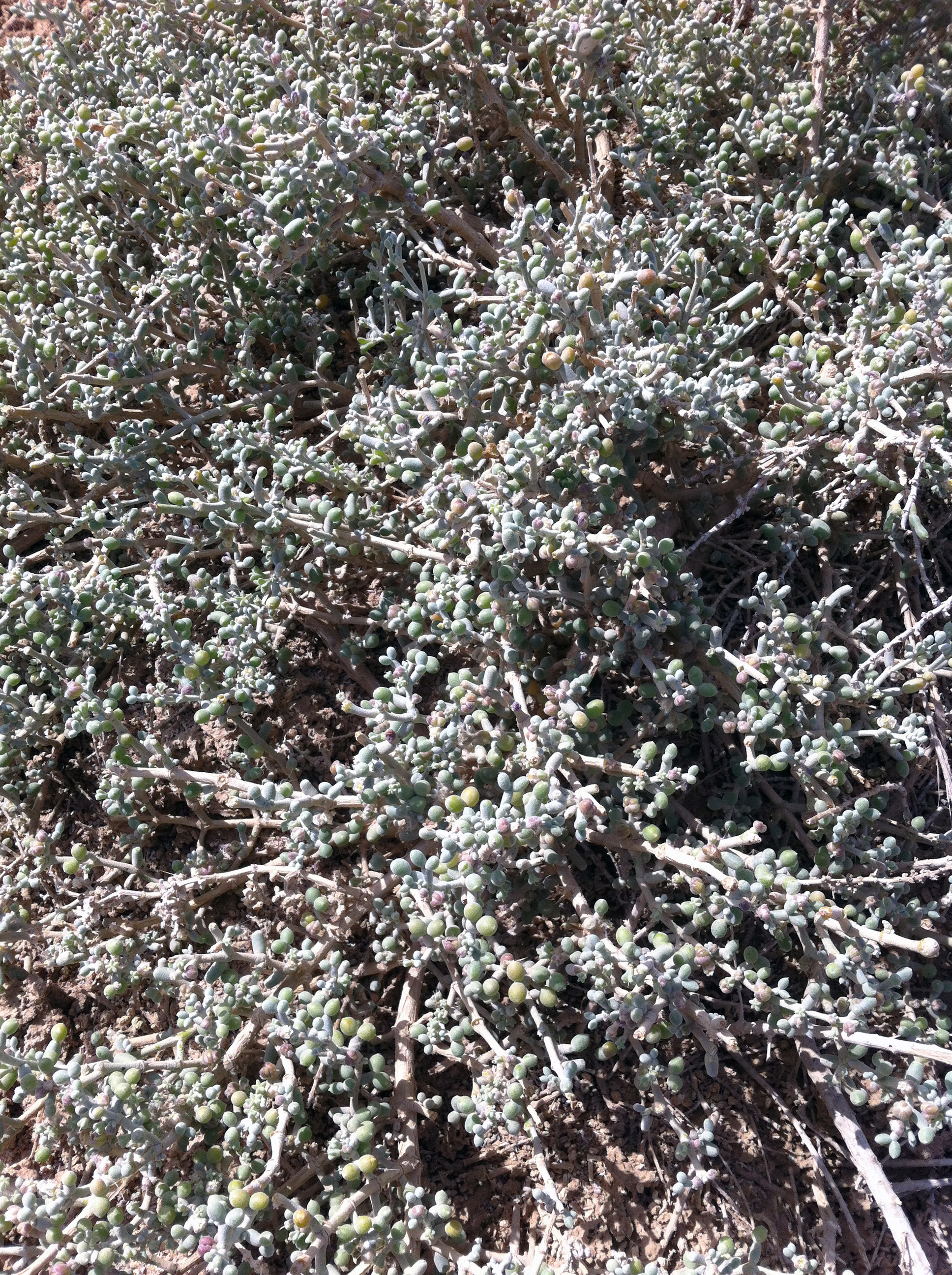 Zygophyllum album (Tetraena alba) near Metlaoui, Tunisia